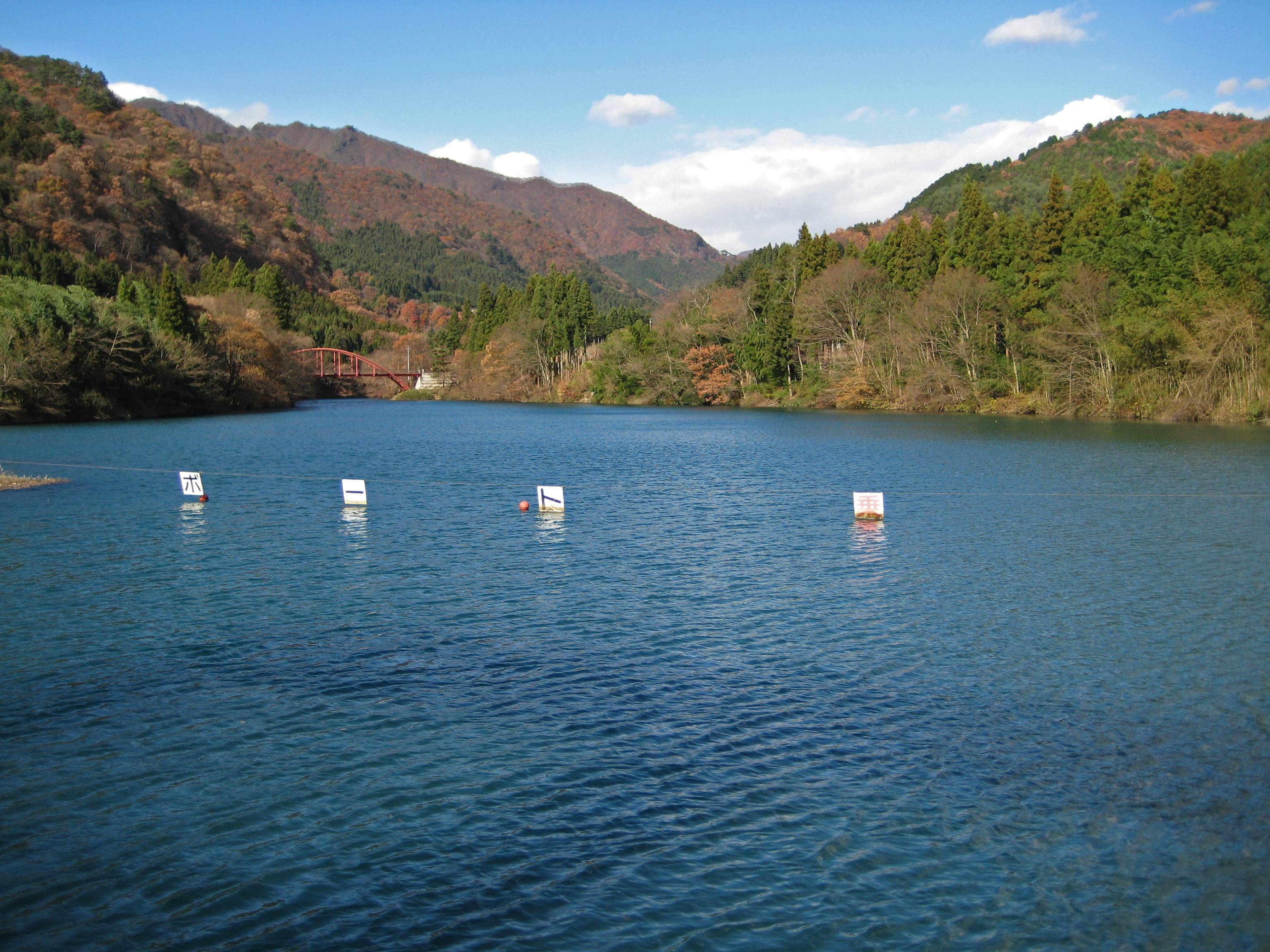 Nakanojō Dam lake.